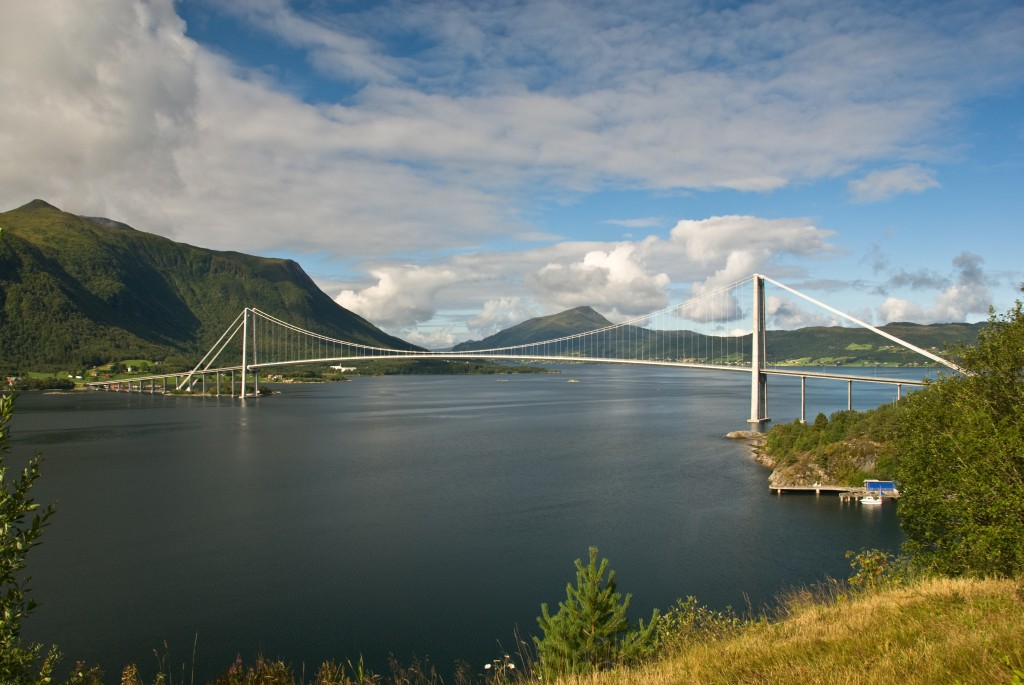 The Gjemnessund Bridge is a road bridge on European route E39 in Møre og Romsdal county (fylke), Norway